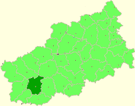 Tver Oblast map by Al Silonov